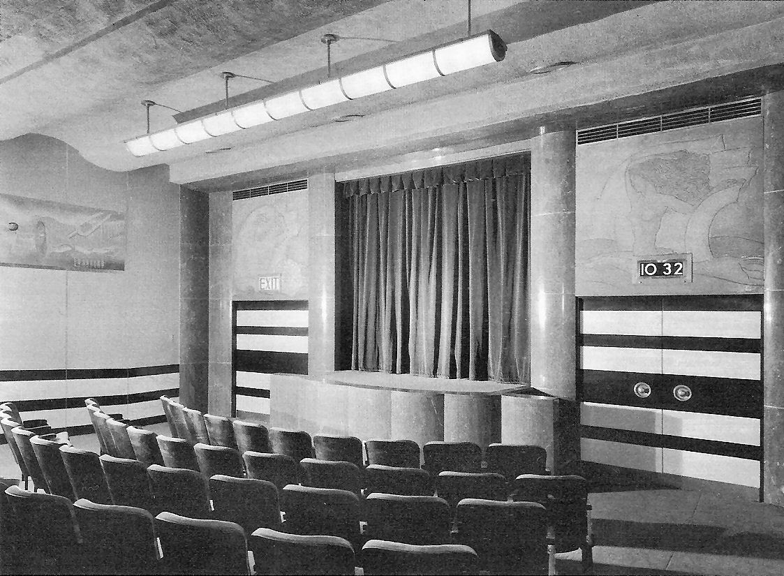 Part of Cincinnati Union Terminal, photo first published in "The Cincinnati Union Terminal: Pictoral History".